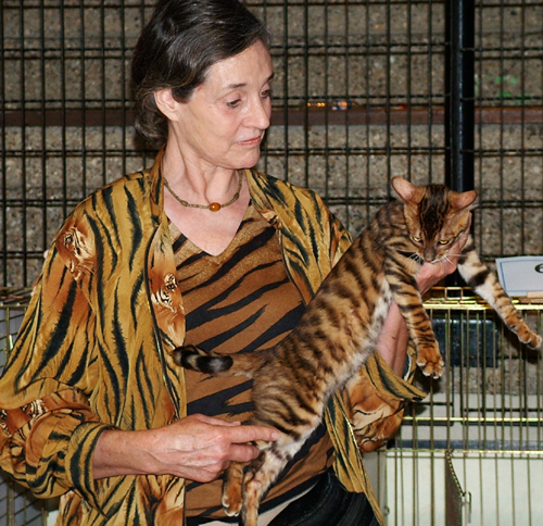 Toyger in Franch Tica Show for the first time in 2007